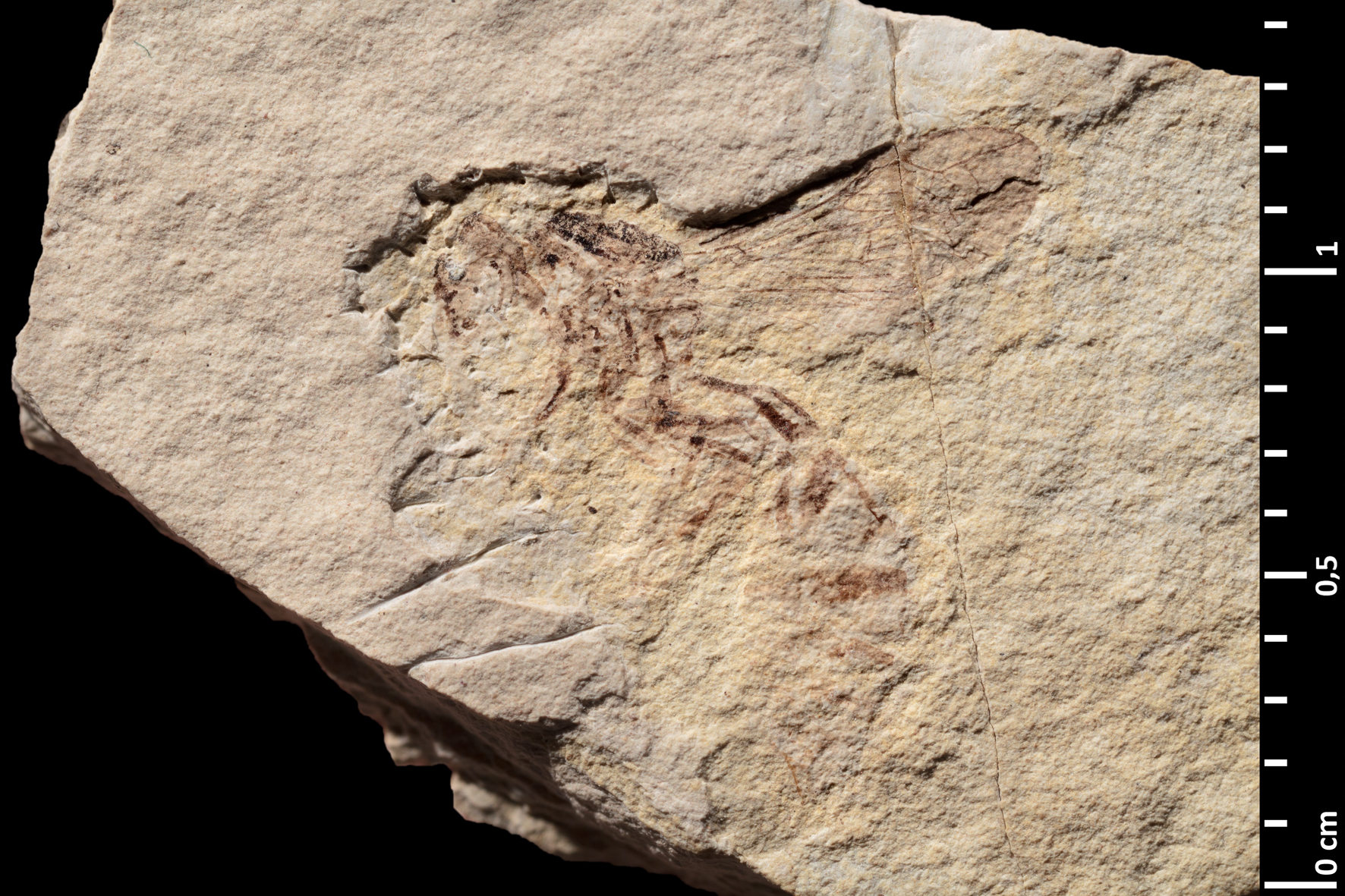 The Palaeopolistes jattioti holotype part specimen with direct lighting. Priabonian, Eocene; Monteils Formation, Monteils, Gard, Languedoc-Roussillon, France Muséum national d'Histoire naturelle specimen MNHN.F.A50409